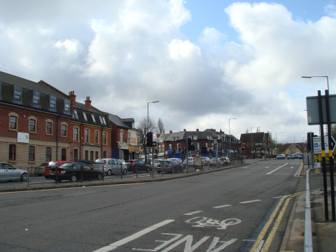 View of Selly Oak High Street (A38 Bristol Road) looking south towards Northfield